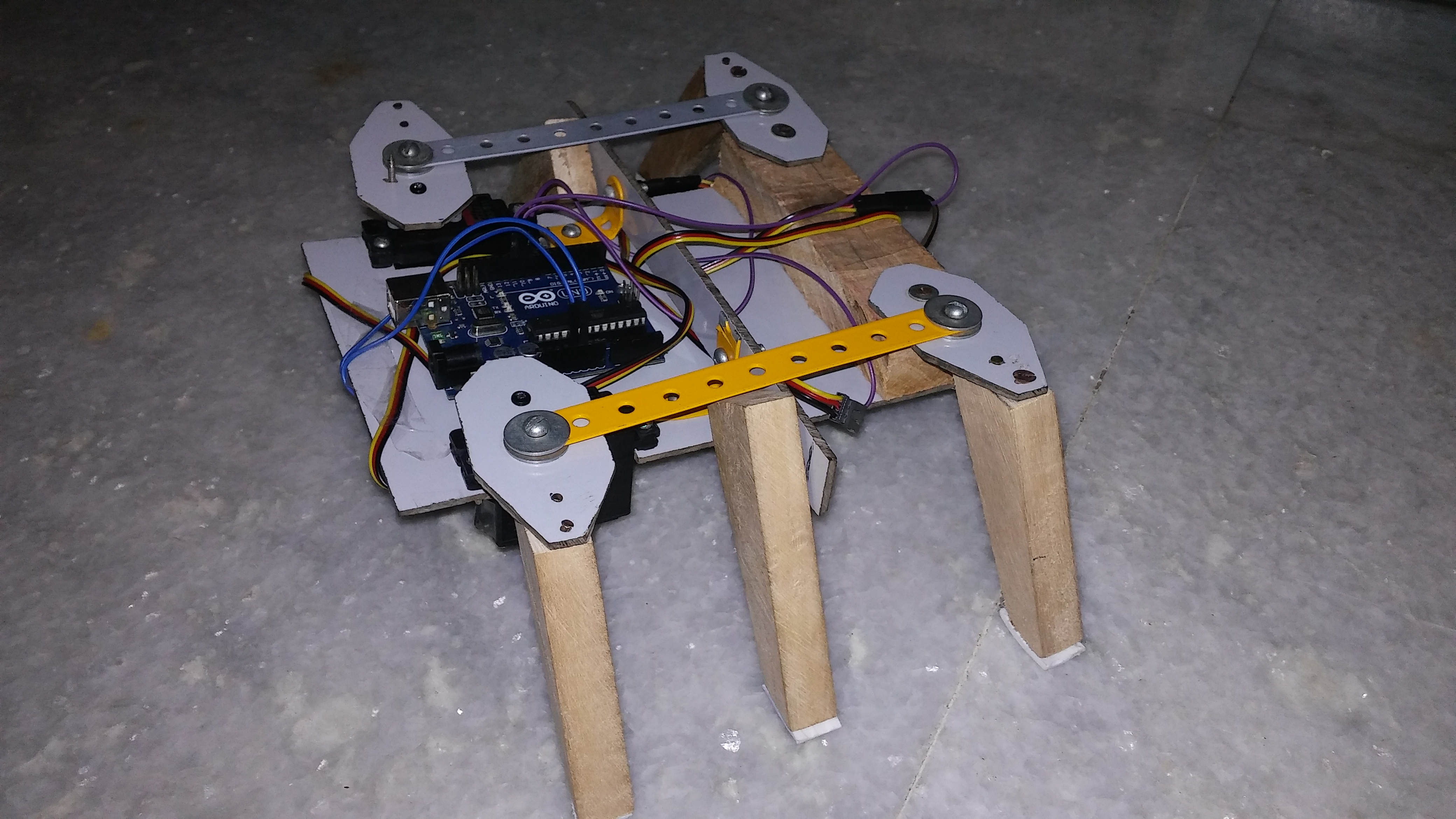 3 servo hexapod robot inspired by the original locomotion of beetle